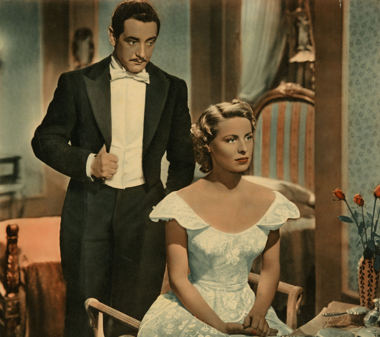 screenshot from the Italian film Amanti del passato (1953)